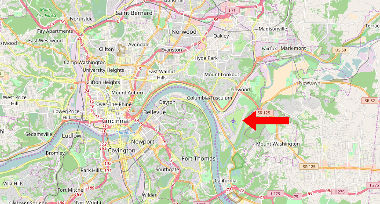 Location map of Cincinnati Municipal Lunken Airport, Ohio This map of Cincinnati, Ohio was created from OpenStreetMap project data, collected by the community. This map may be incomplete, and may contain errors. Don't rely solely on it for navigation.